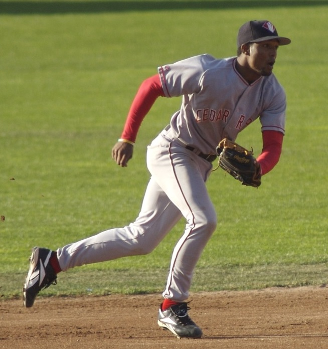 Hainley Statia playing infield with the Cedar Rapids Kernels in 2006.